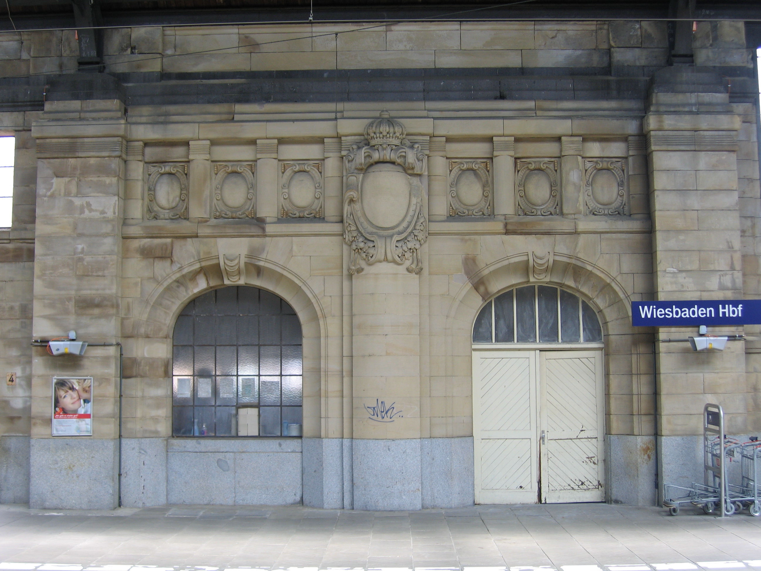 Entrance to the imperial waiting rooms (destroyed) in Wiesbaden central station